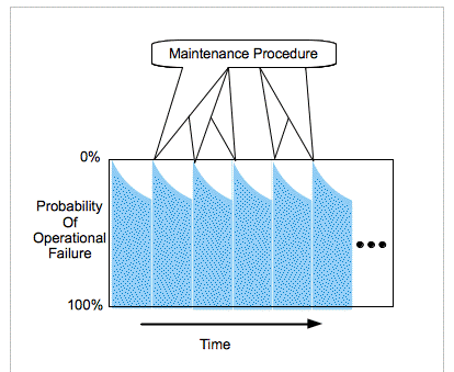 Periodic maintenance to restore operation.